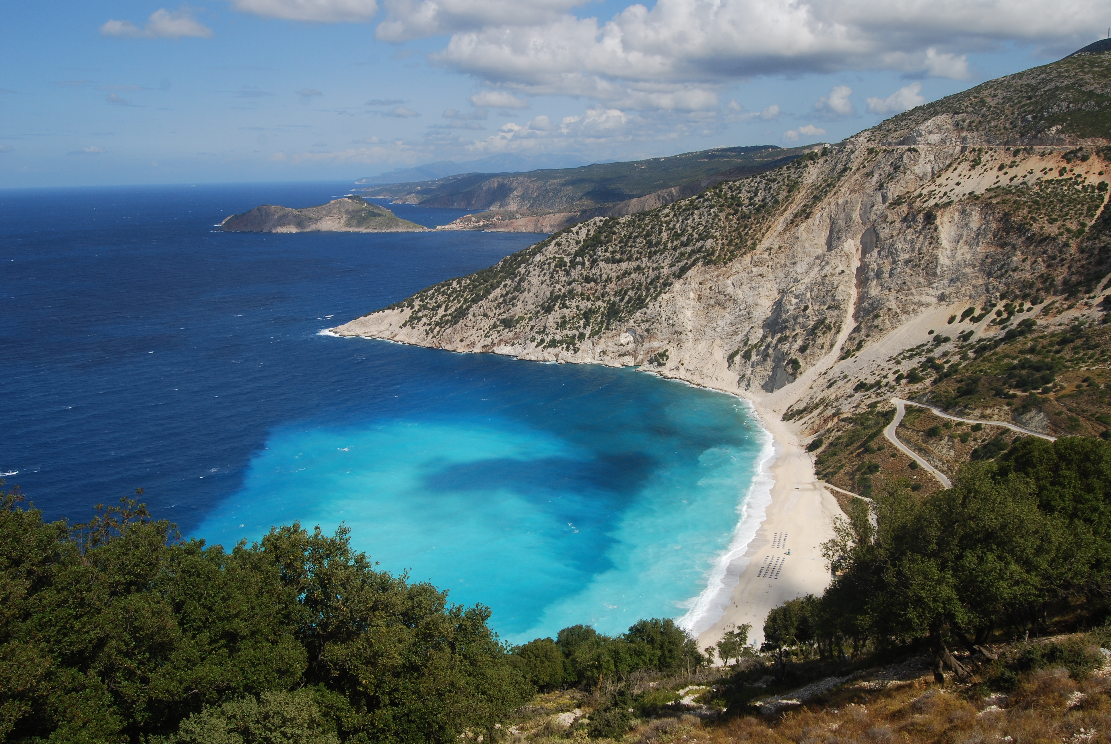 Myrtos Beach, Kefalonia, Greece.